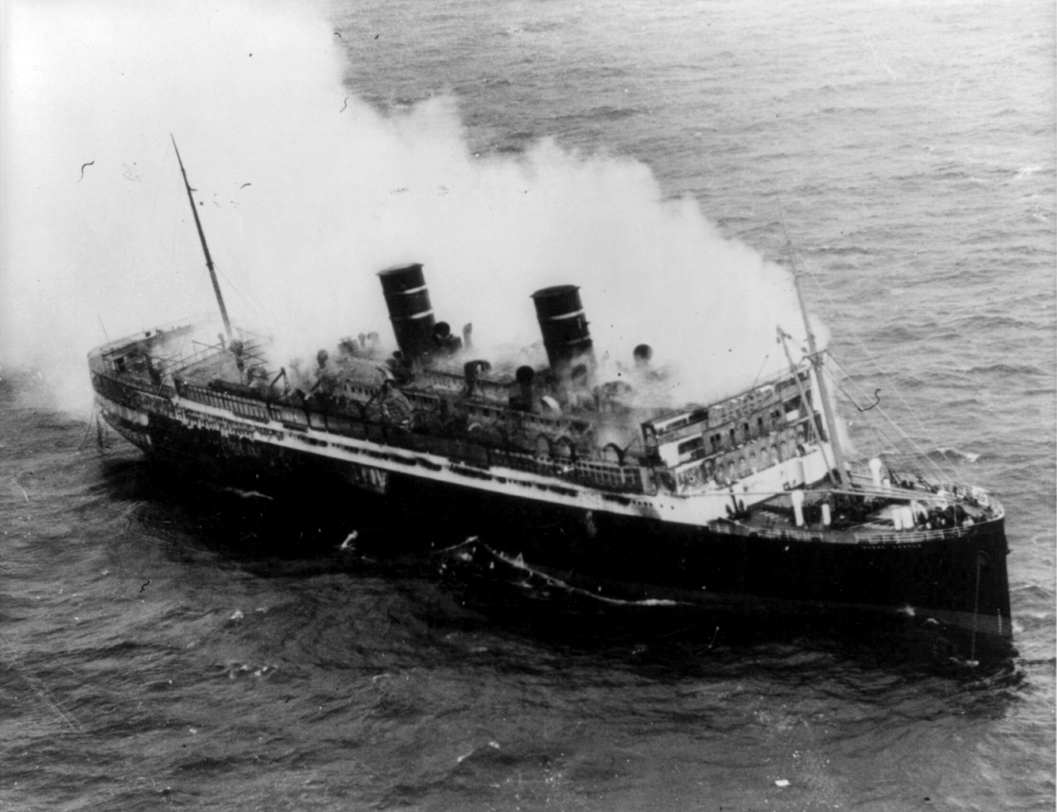 SS Morro Castle burning at sea